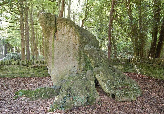 The Hoar Stone near Fulwell Oxfordshire The remains of a burial chamber.